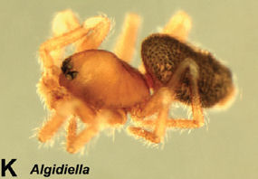 Algidiella aucklandica (male)